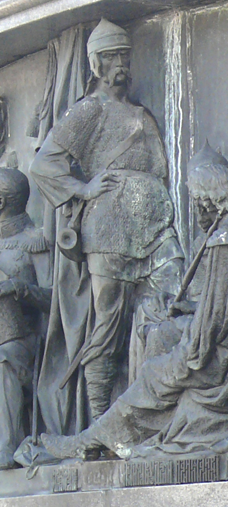 Sviatoslav I of Kiev on the Monument «Millennium of Russia» in Veliky Novgorod